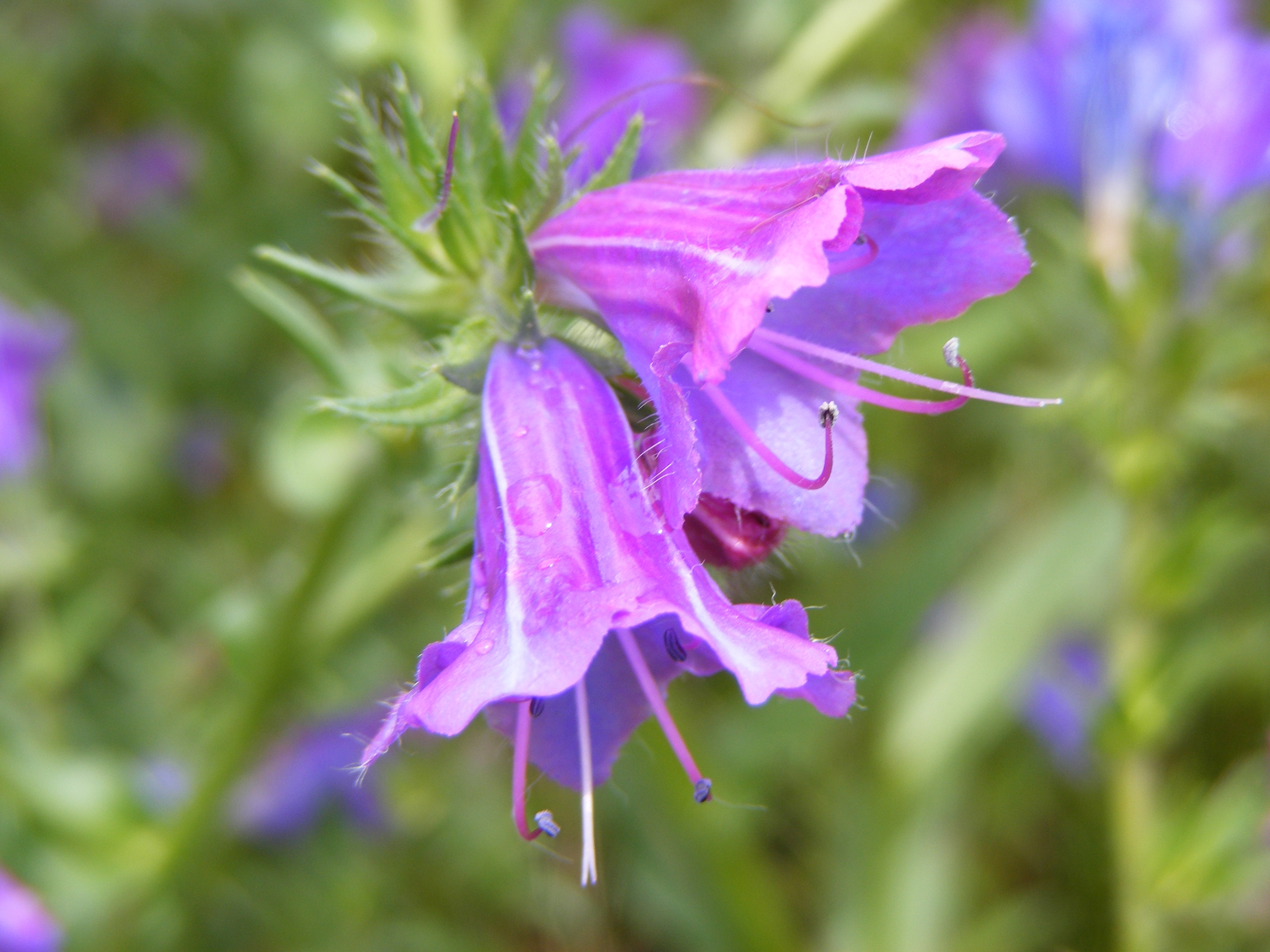 Echium plantagineum (salvation Jane or Patterson's curse) flowers in spring. Just off the freeway at Crafers, adelaide, South Australia